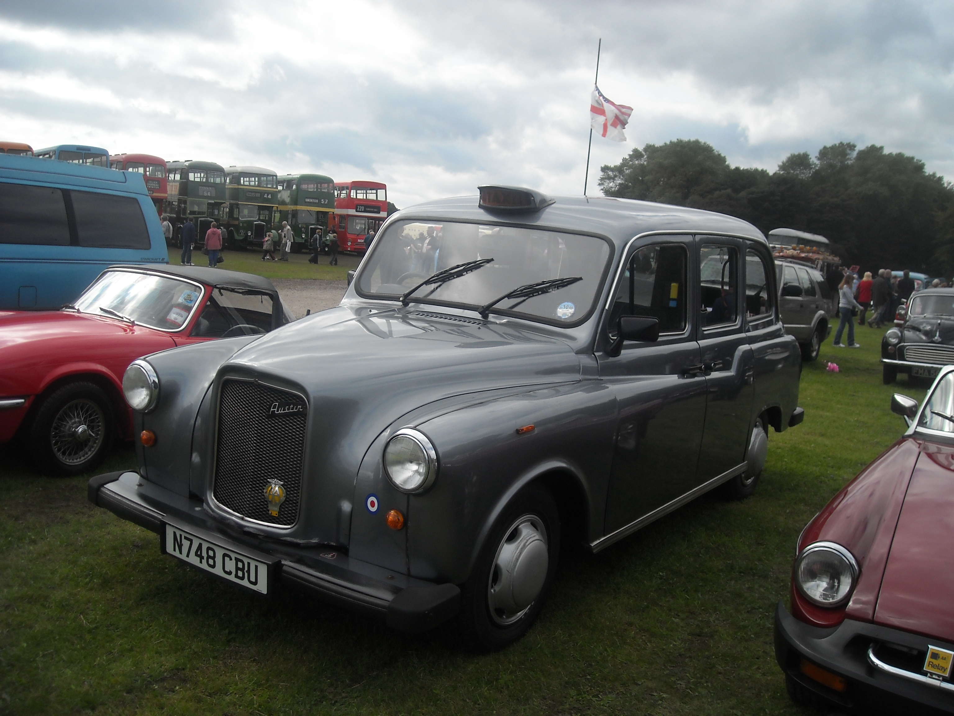 A proper Manchester taxi (Yes, it's definitely a Manchester rather than London one as it carries the traditional Oldham registration) seen at Heaton Park during the Trans Lancs Rally